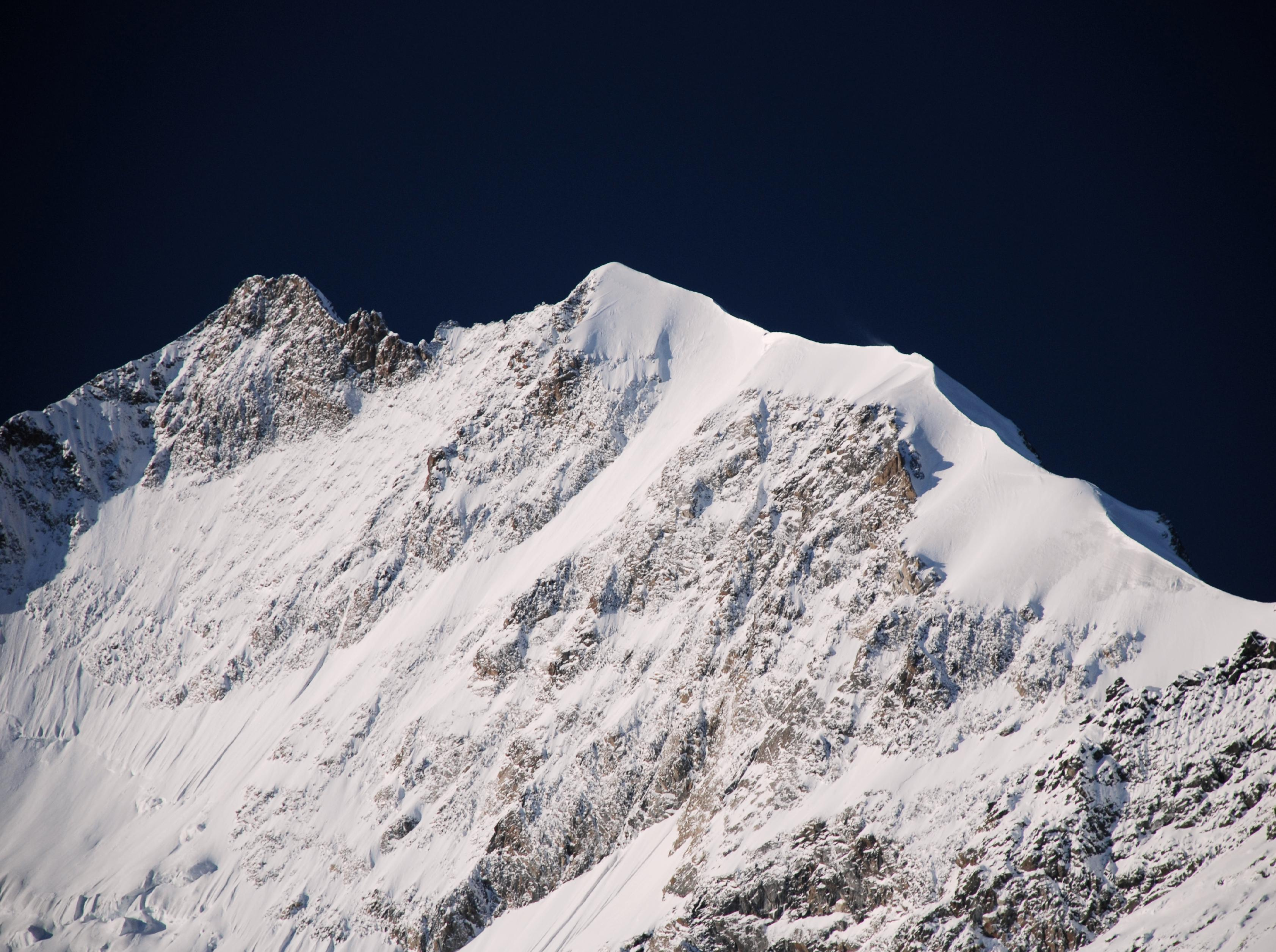 Piz Bernina seen from the Biancograt (white ridge).